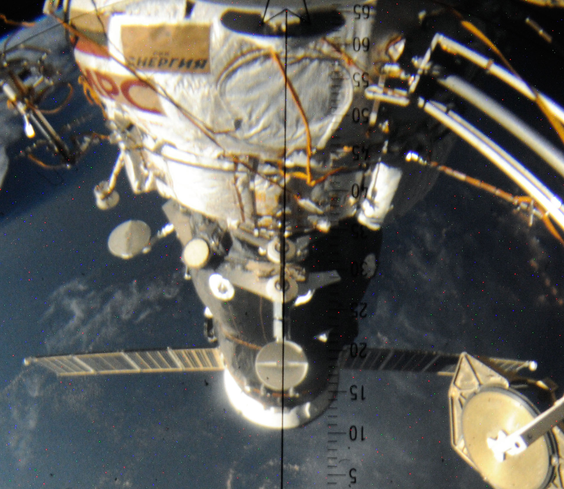 The visual scope looking down at the Pirs docking compartment on the Russian segment of the International Space Station. Currently seen docked to Pirs is the ISS Progress 64 cargo craft, which delivered over 3 tons of food, fuel and supplies to the crew of Expedition 48.